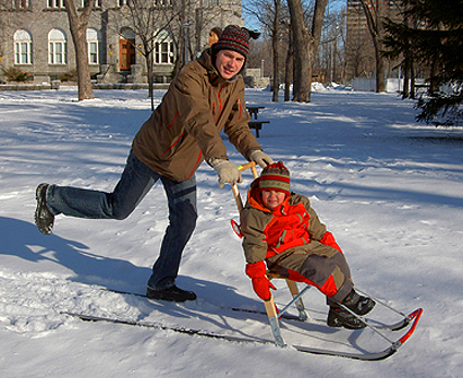 Kicksled with child. photo